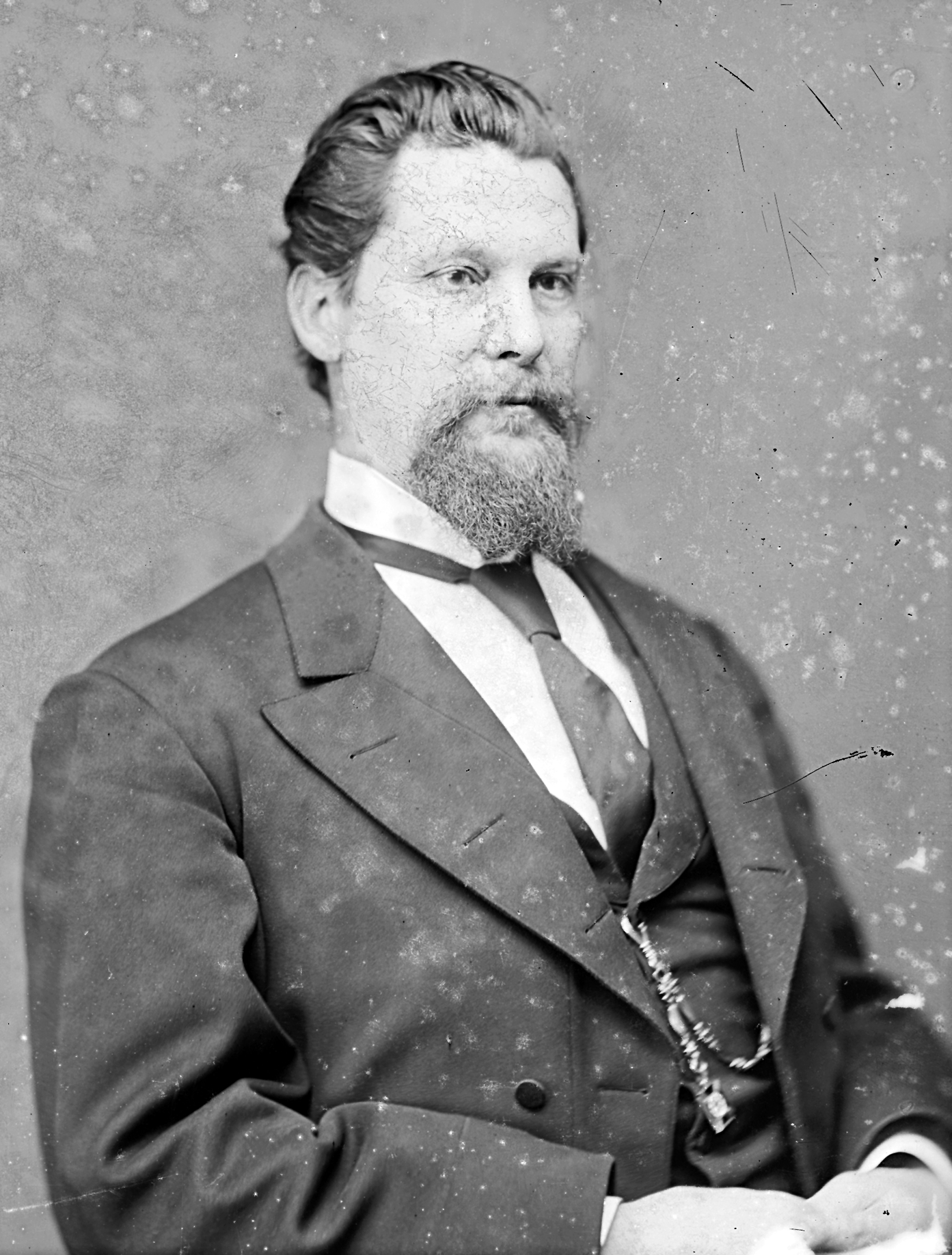 Peter D. Wigginton, US Representative from California